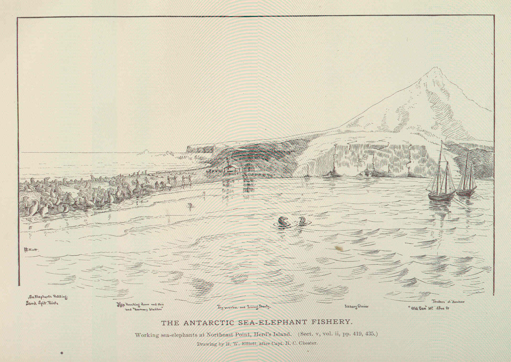 Antarctic Sea-Elephant Fishery Working sea-elephants at Northeast Point, Herd's Island Subject: Heard Island (Antarctica), Elephant seals Geographic Subject: Antarctica--Heard Island Tag: Aquatic Mammals